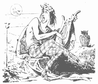 Illustration to a satiric poem by Josef Hubáček (1850-1900), Czech journalist writing under a pen-name Emanuel Pišišvor. This picture was re-printed many times throughout the 1870s.